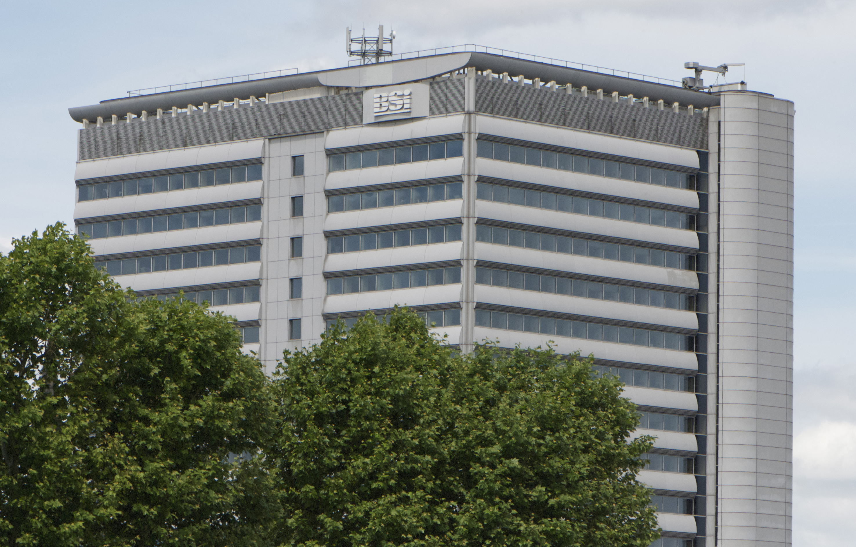 BSI Group building in Chiswick, west London